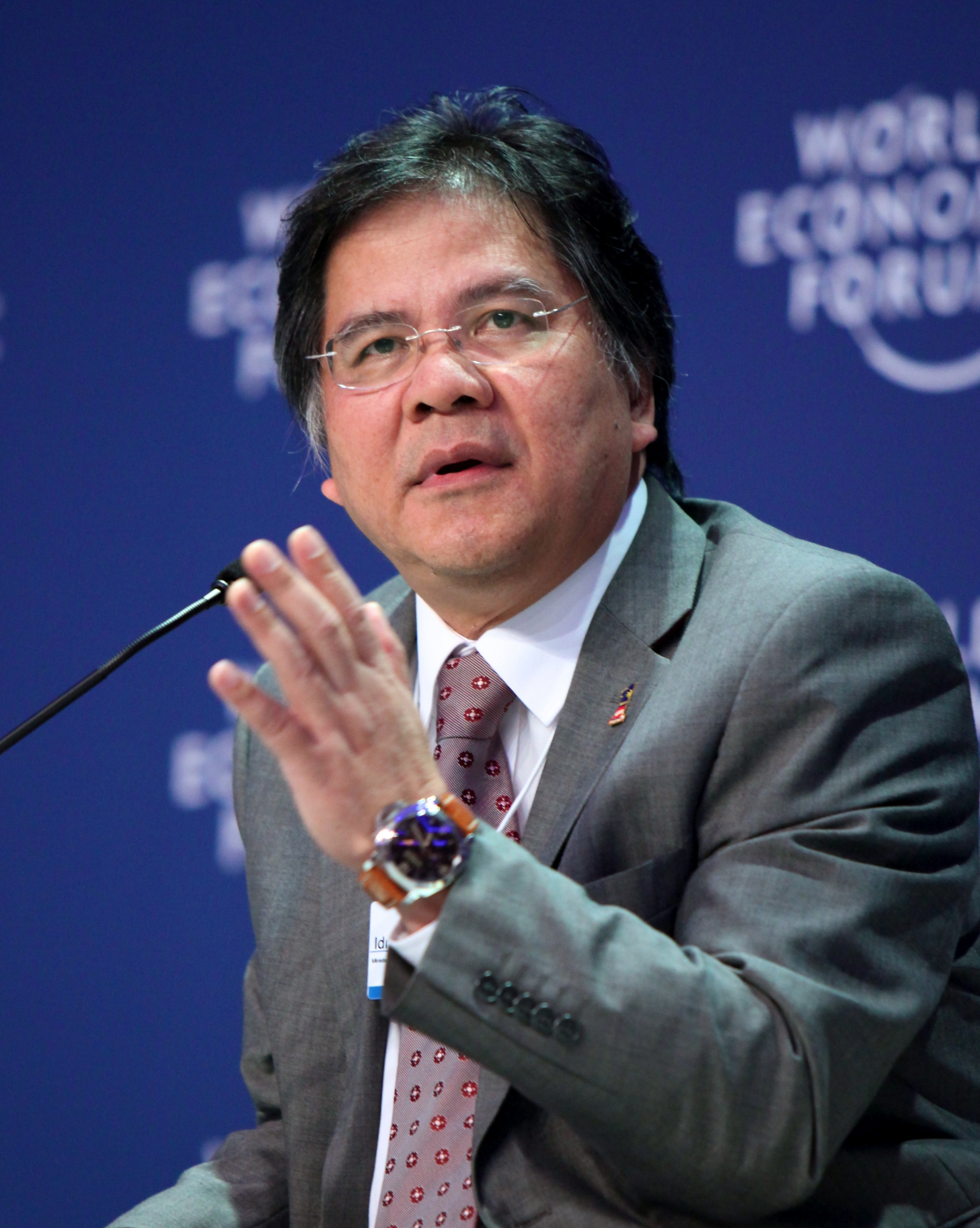 BANGKOK/THAILAND, 31MAY12 - Idris Jala, Minister, Office of the Prime Minister of Malaysia, is captured during the World Economic Forum on East Asia in Bangkok, Thailand, May 31, 2012. Copyright World Economic Forum ( Photo by Sikarin Thanachaiary